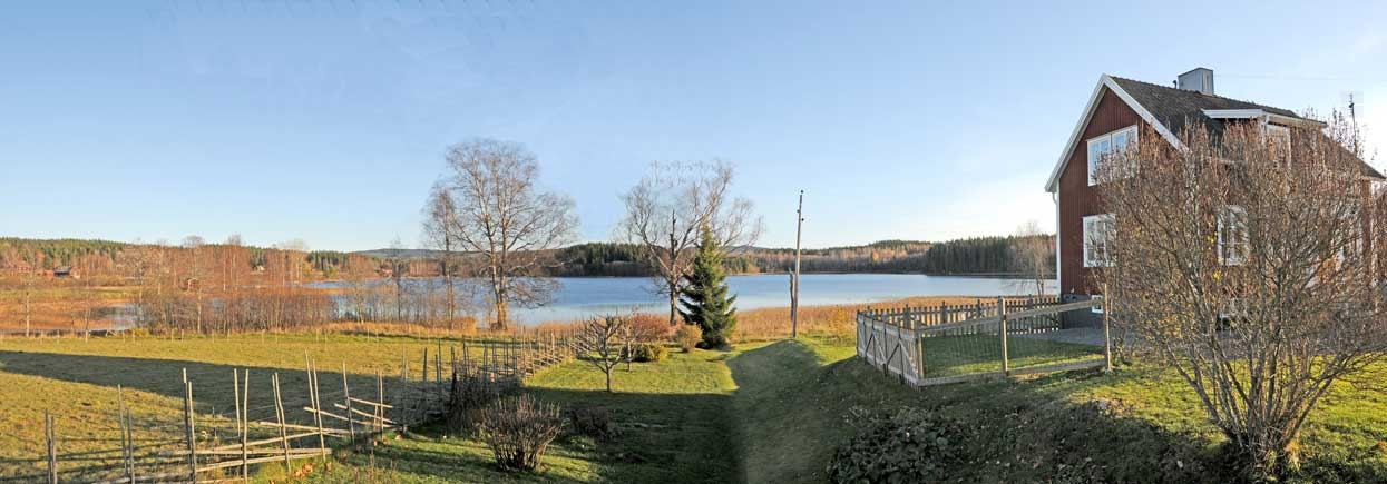 The landscape of Hjulsjö, Västmanland, Sweden